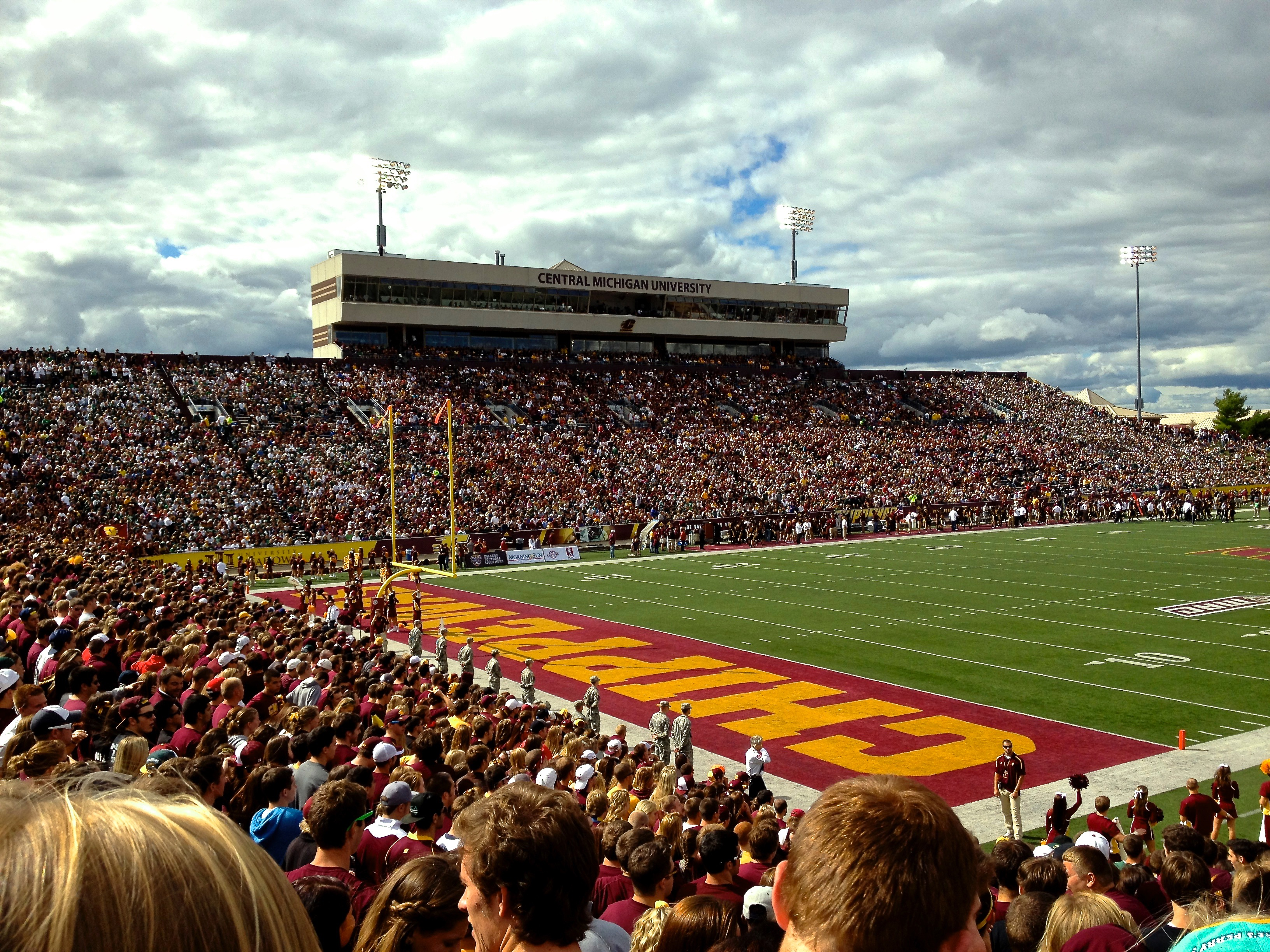 Kelly/Shorts Stadium at Central Michigan University, Mount Pleasant, Michigan. This game featured Michigan State University vs. Central Michigan University.